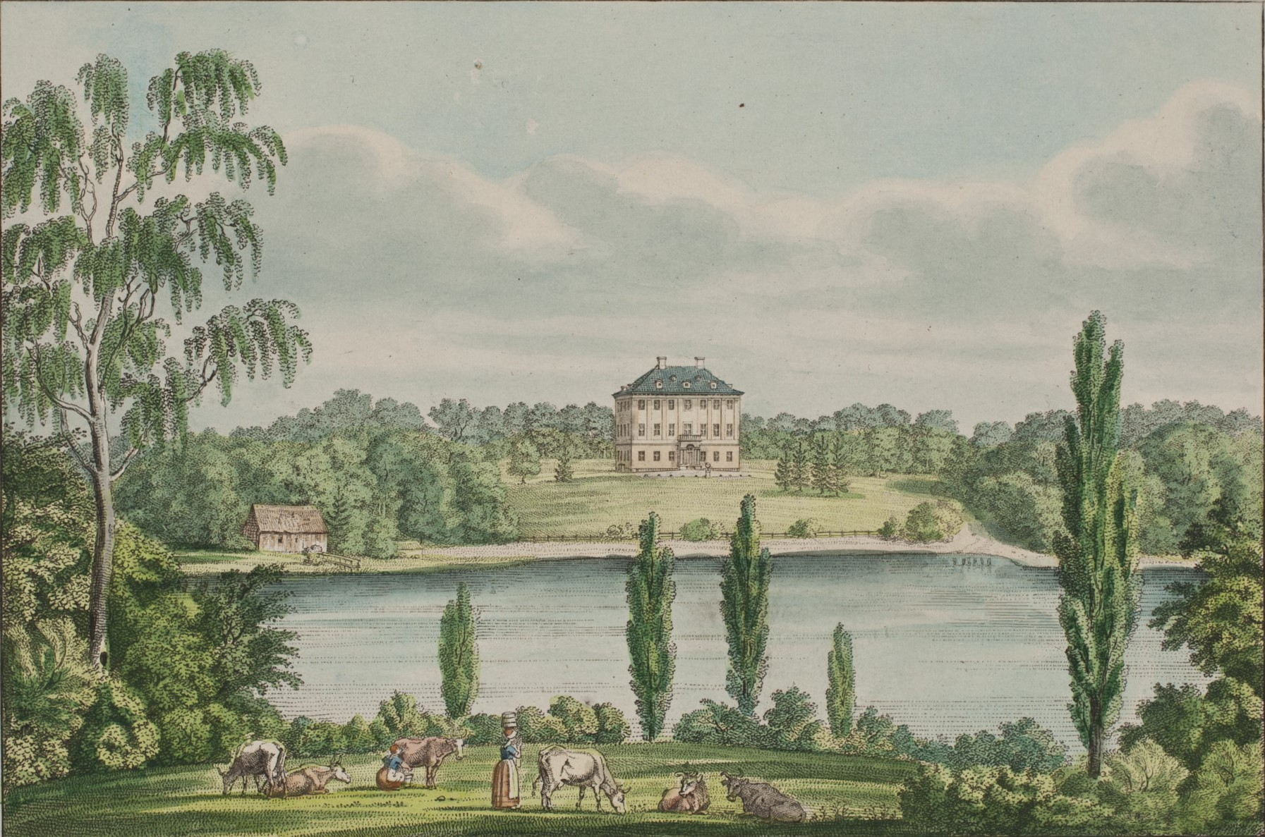 Jens Holm (1776-1859); H.G.F. Holm (1803-1861), Dronninggaard, (1826)